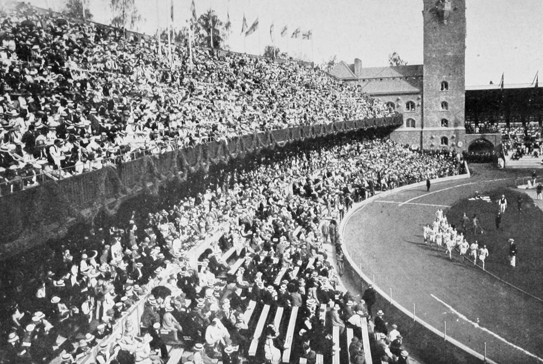 The final of the men's 3000 metre team race at the 1912 Summer Olympics.